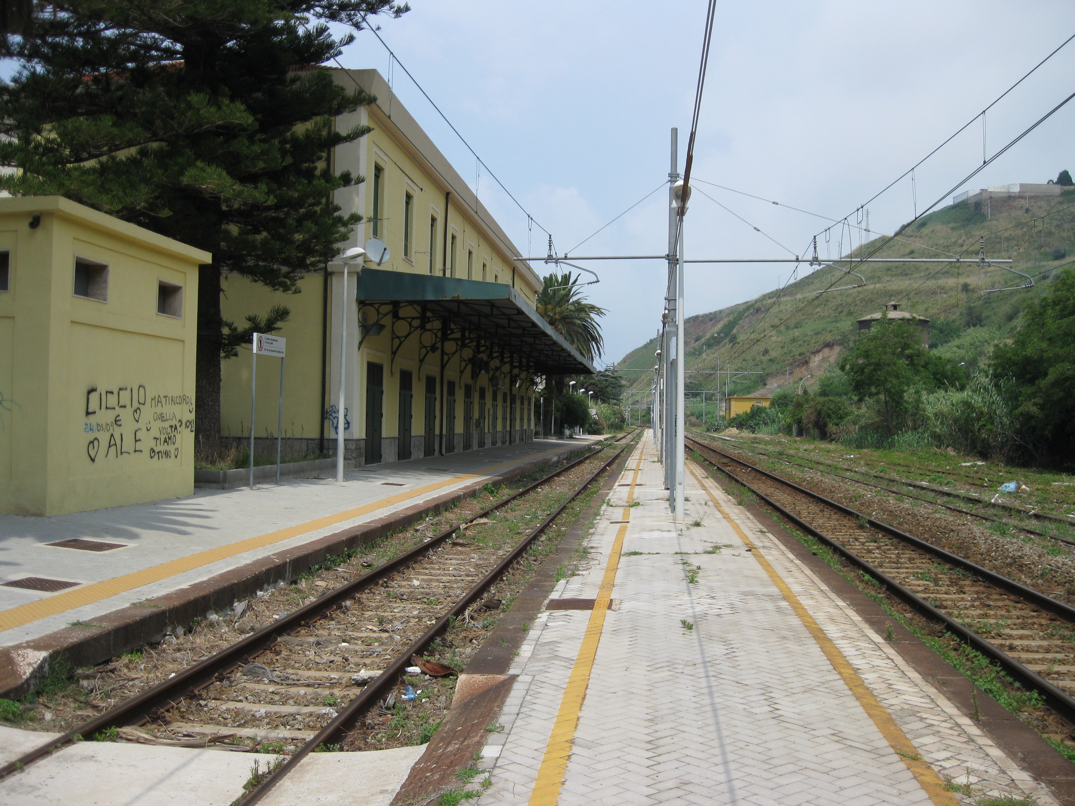 Railway station in Pizzo, Italy